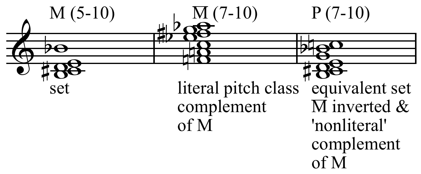 Created by Hyacinth (talk) 20:16, 16 January 2011 using Sibelius 5. Example of nonliteral complementation.